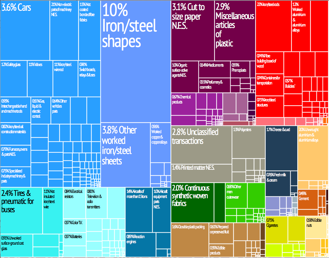 Export Trading Treemap. From MIT/Harvard [1]